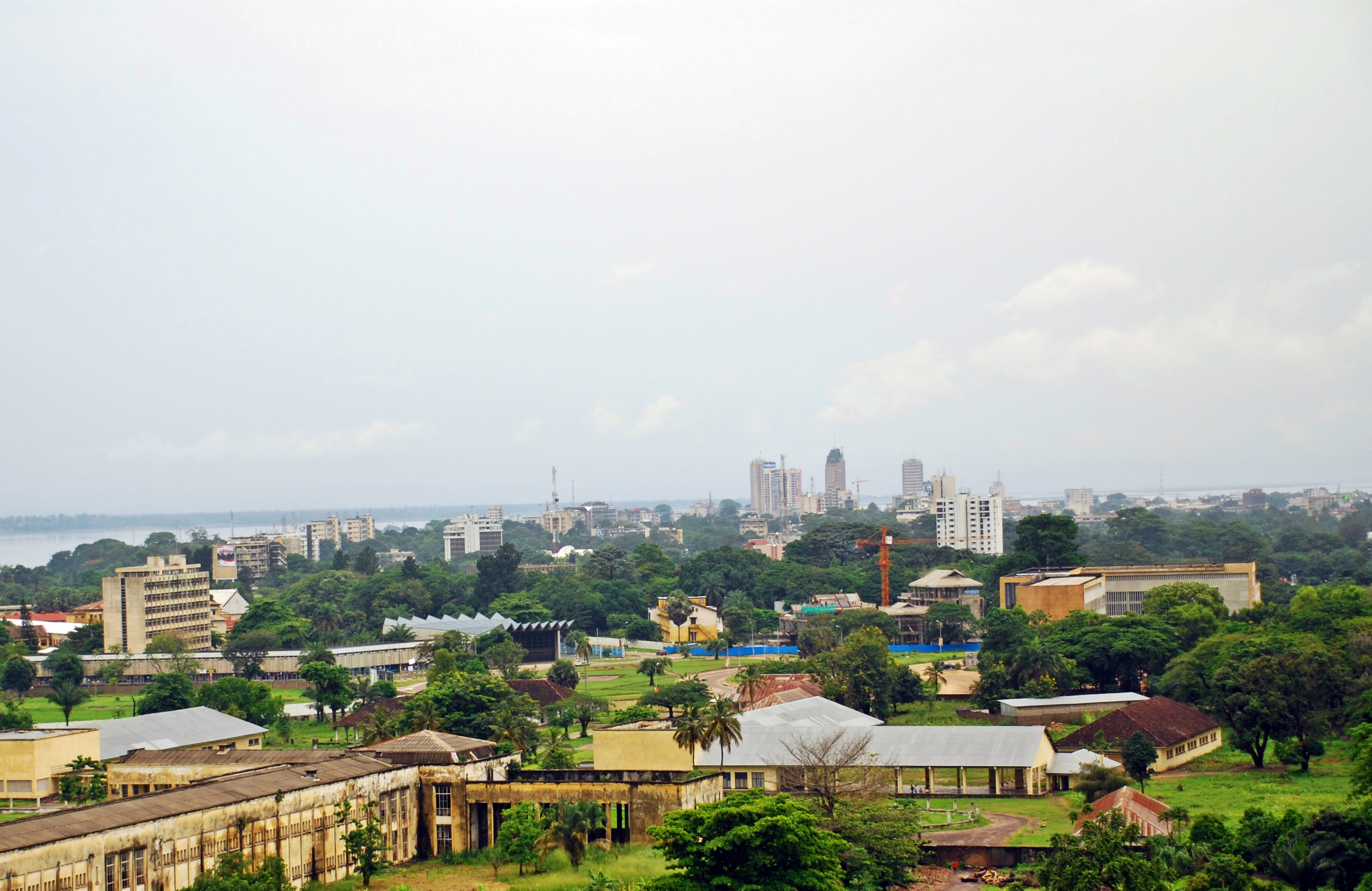 You can see just a sliver of Congo river in the back.